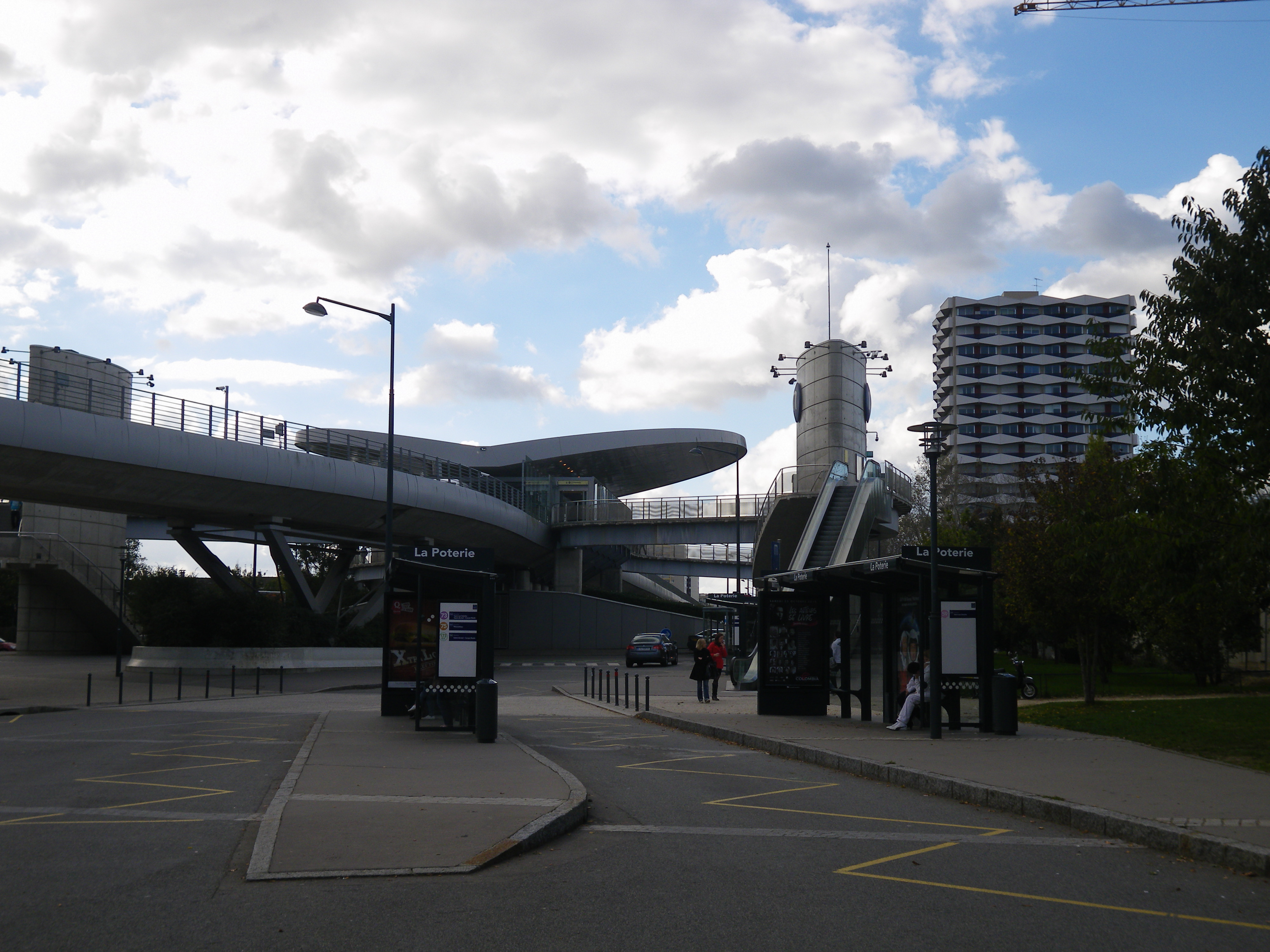 la station de metro poterie